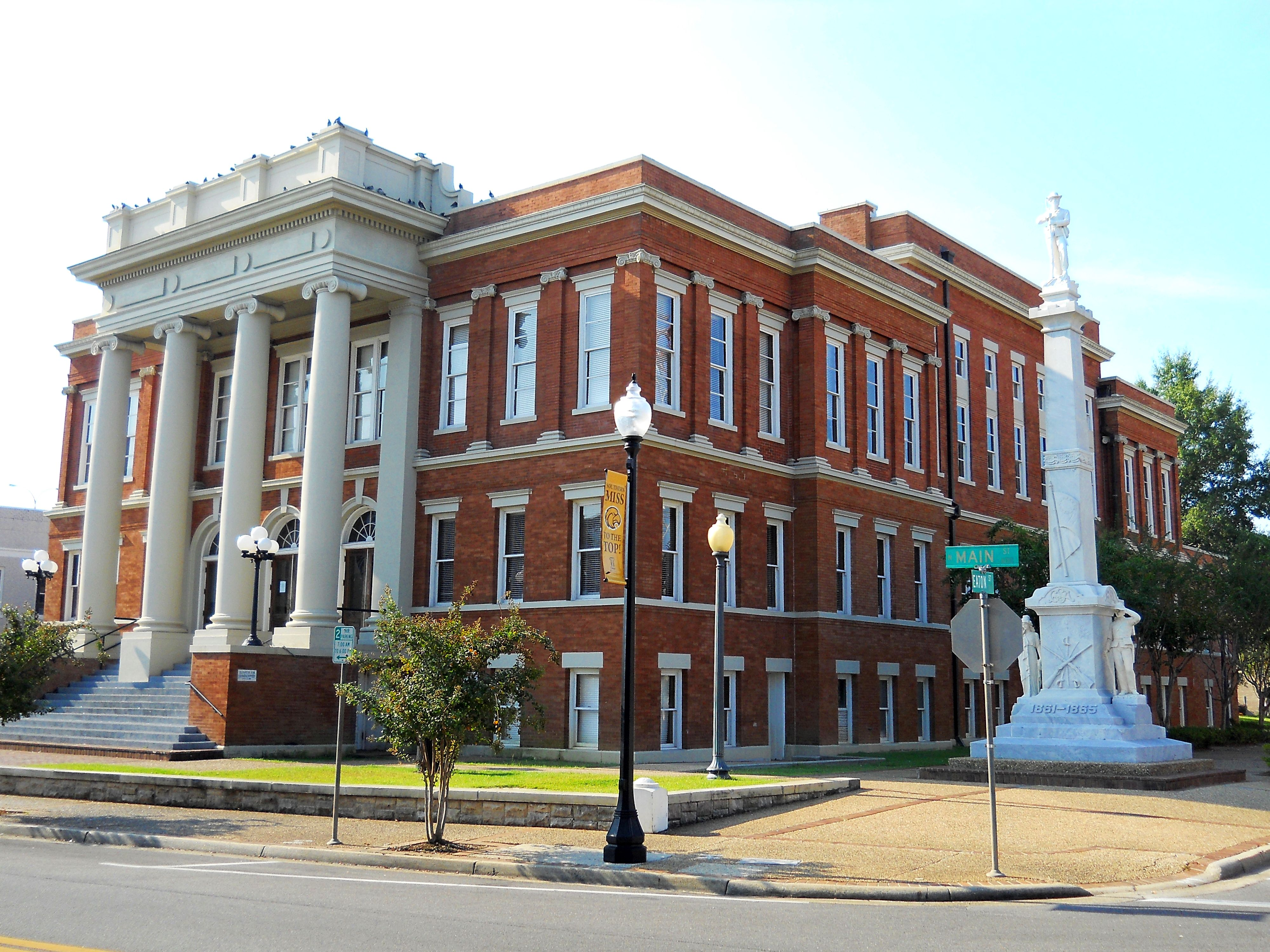 Forrest County Courthouse and Confederate Monument located in Hattiesburg, Mississippi. The courthouse is contributing property No. 7 in the Hub City Historic District, National Register of Historic Places.